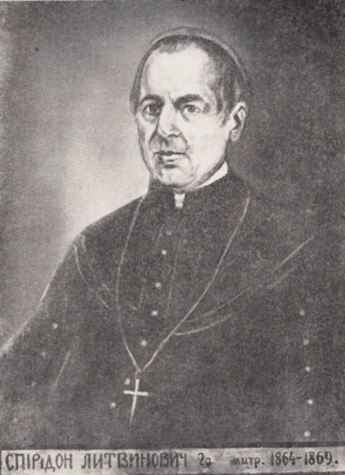 Spyrydon Lytvynovych, Metropolitan of Lviv